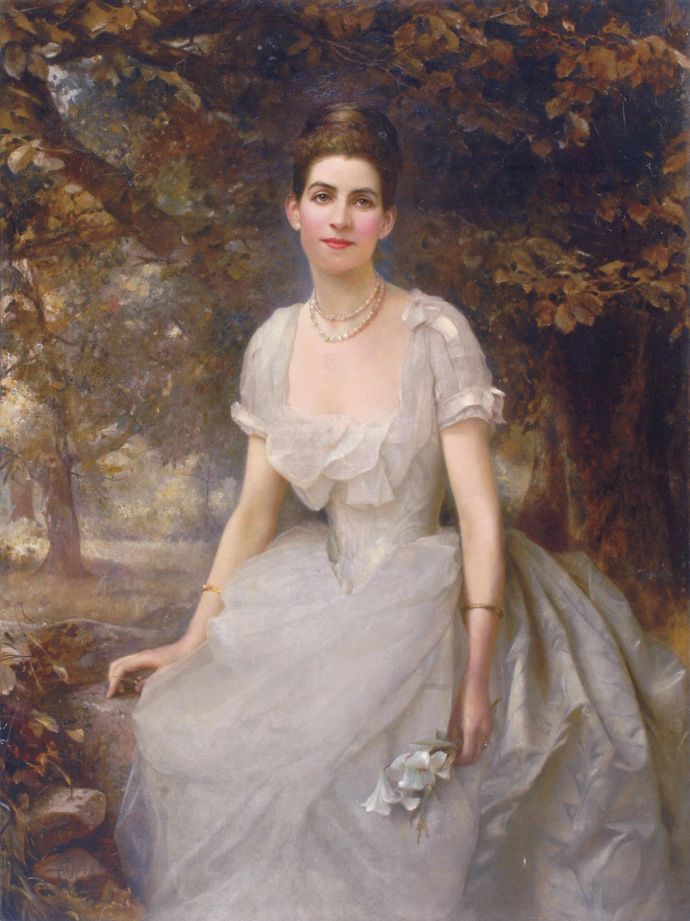 Vere Monckton-Arundell in a white evening dress holding lilies in a landscape signed and dated 'Edward Hughes/1889' (lower left) oil on canvas 133.4 x 97.3 cm